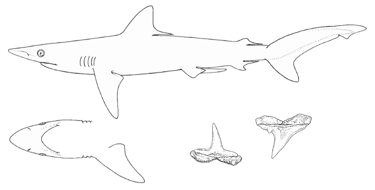 Hardnose shark (Carcharhinus macloti)